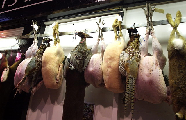 Butchery in Oxford Oxford's famous old covered market is the place to go for topclass meat and game (not to mention cheese, fish...) In the run-up to Christmas it is sometimes hard to move for sheer mass of dead creatures dangling in the aisles: a vegetarian's nightmare.